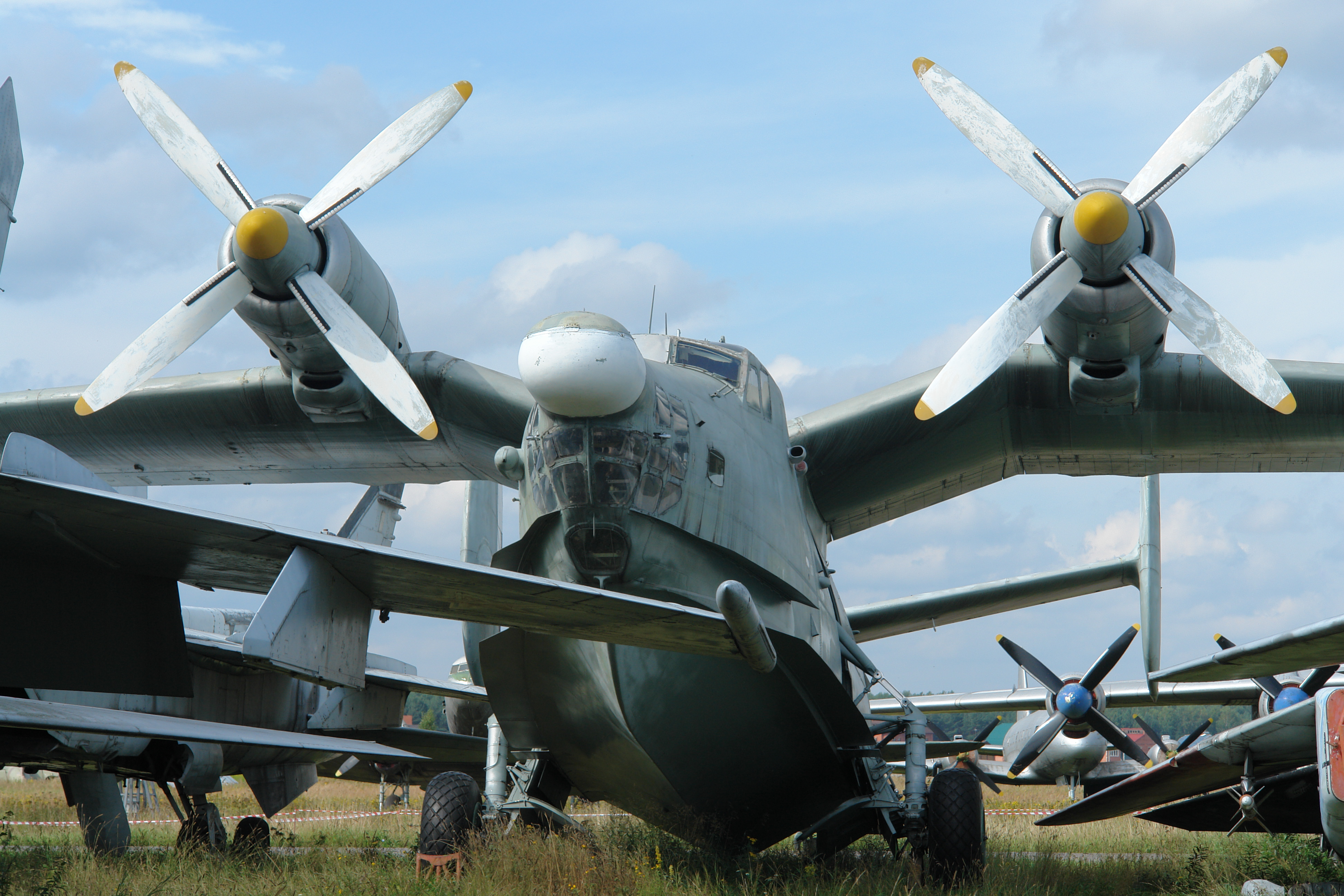 Berijew Be-12 (Mail) at Monino Central Air Force Museum (Moscow)